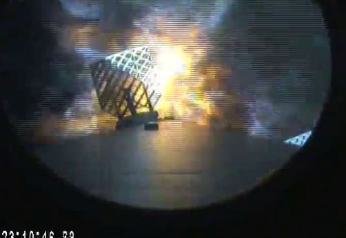 Re-entry burn with deployed grid fin during the launch of DSCOVR. Just before sunset at 6:03pm ET on Wednesday, Feb. 11th, Falcon 9 lifted off from SpaceX’s Launch Complex 40 at Cape Canaveral Air Force Station, Fla. carrying the Deep Space Climate Observatory (DSCOVR) satellite on SpaceX’s first deep space mission.